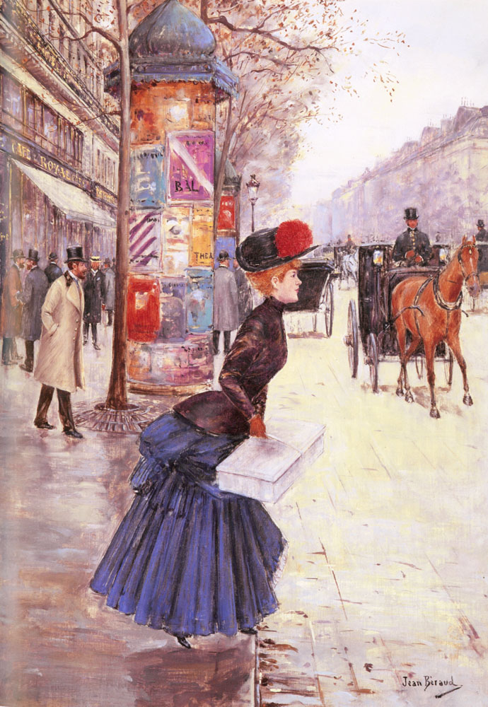 Her clothes belong to 1880s styles.